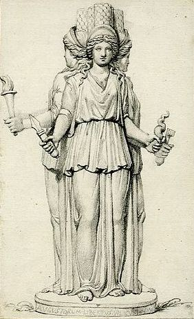 Hecate, cropped